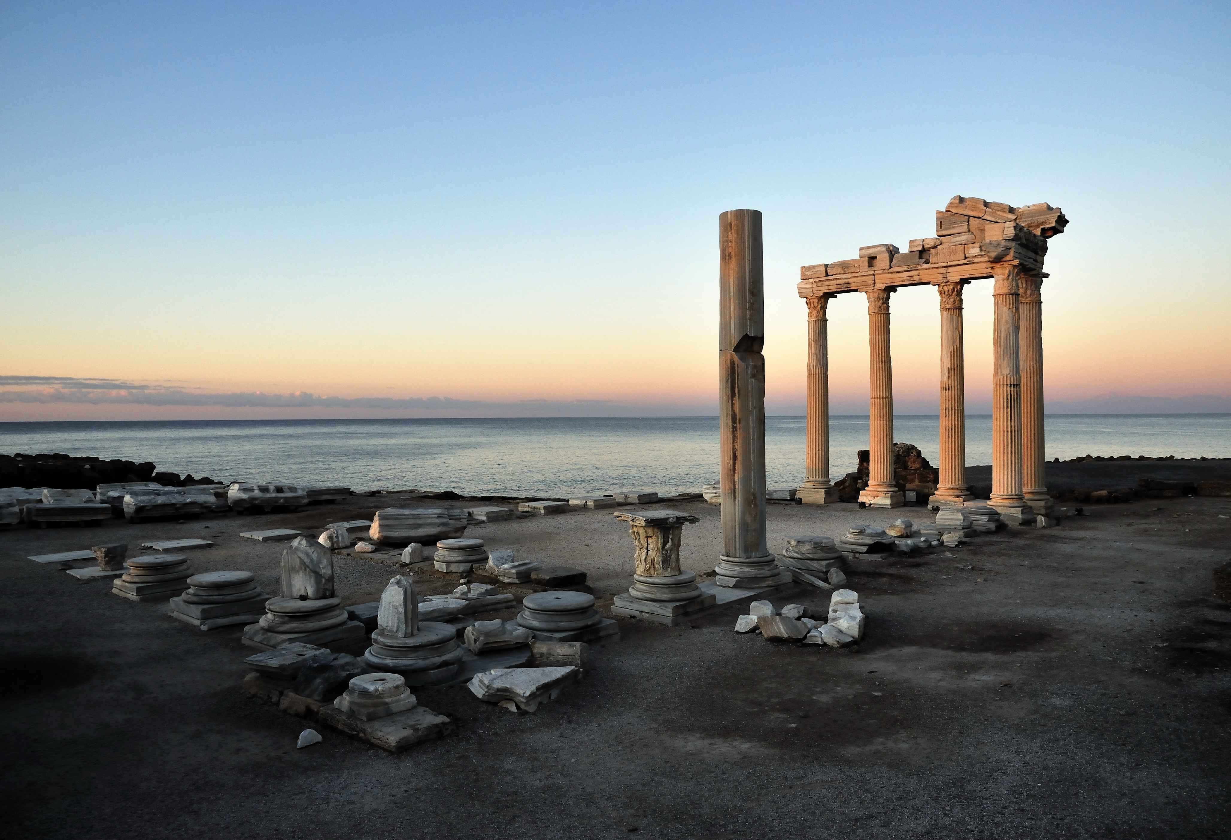 The ruins of the Temple of Apollo at Side, Antalya, Turkey